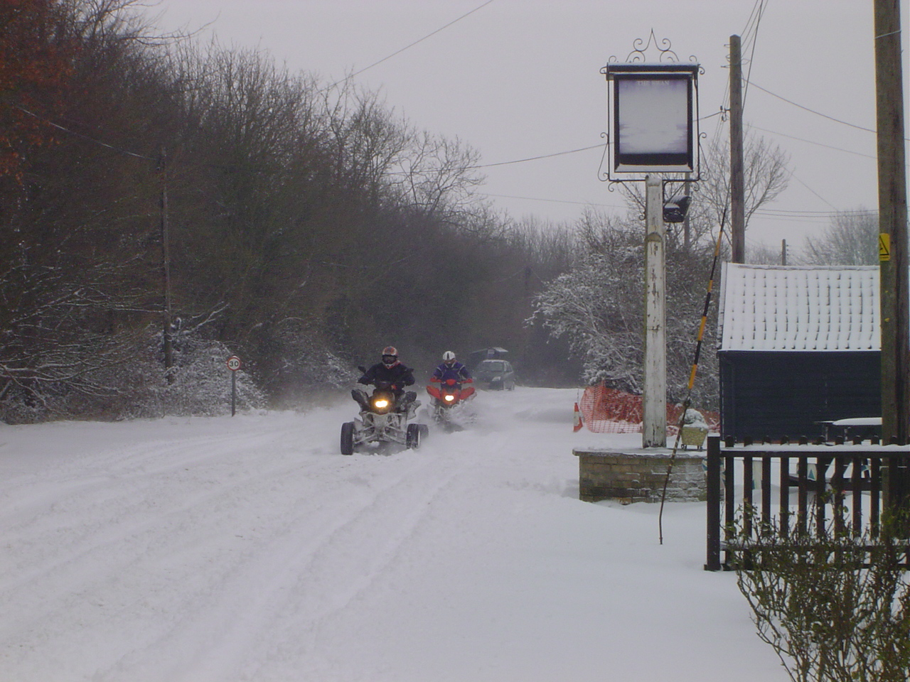 The Lawshall Swan sign in a snow-storm. A snowy scene outside the Swan Public House, Lawshall, Suffolk.